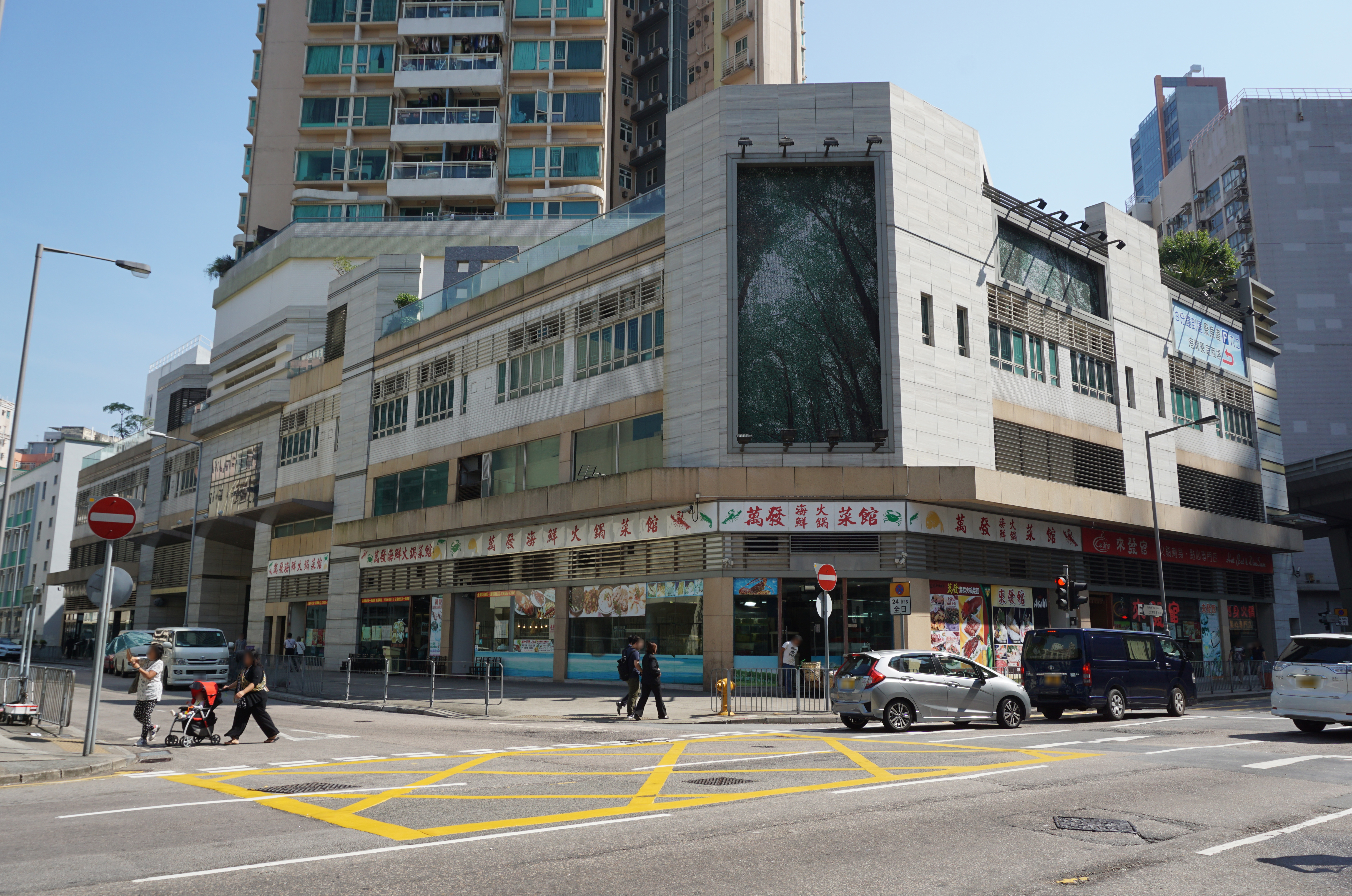 Shining Heights in Tai Kok Tsui, Hong Kong.